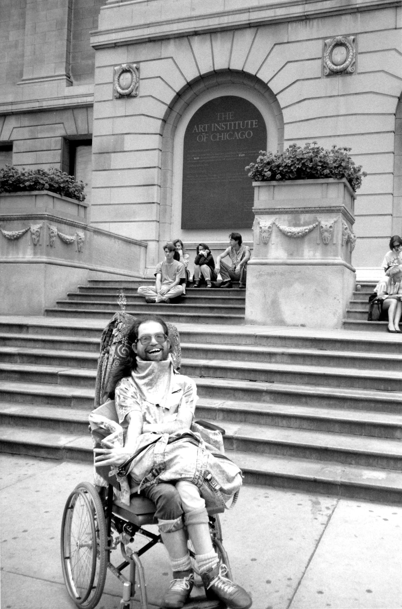 Photo of Frank Moore in front of the Chicago Art Institute